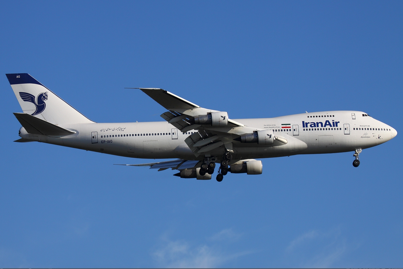 EP-IAG, Iran Air Boeing 747-200, Moscow - Sheremetyevo Airport